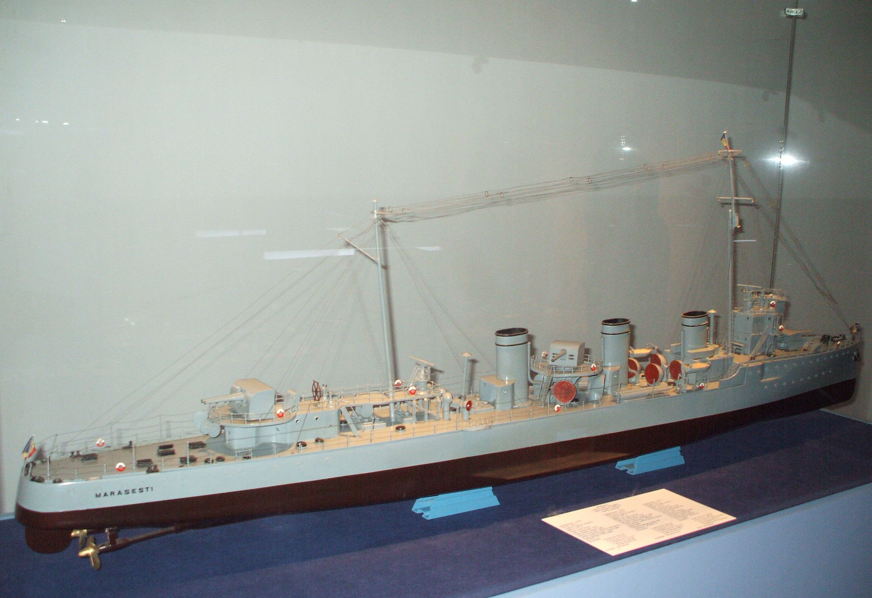 NMS Mărășești scout cruiser scale model on display at the Romanian Navy Museum in Constanța.